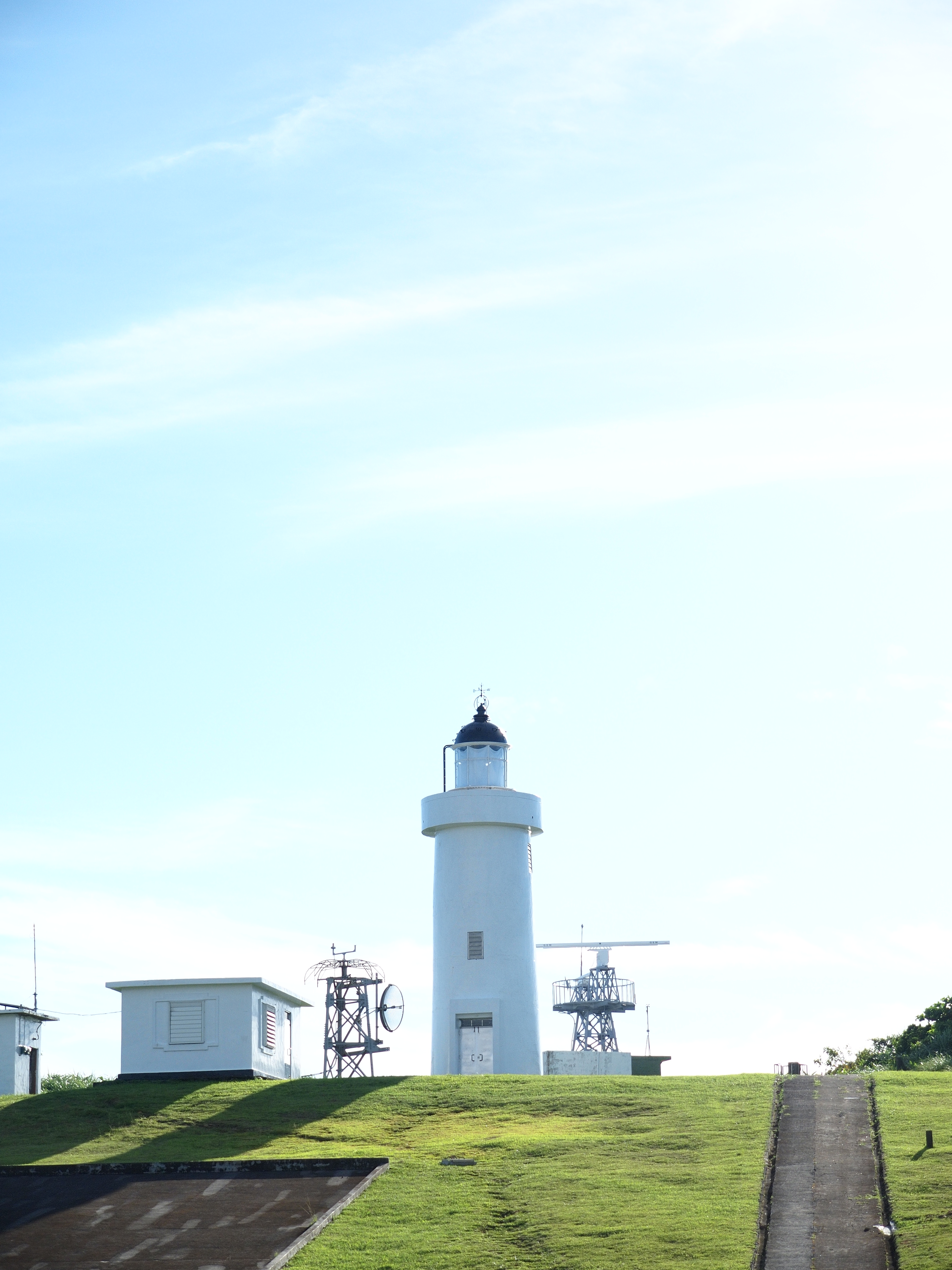 Lanyu or Orchid Island Lighthouse, in Orchid Island of Taitung County, Republic of China.